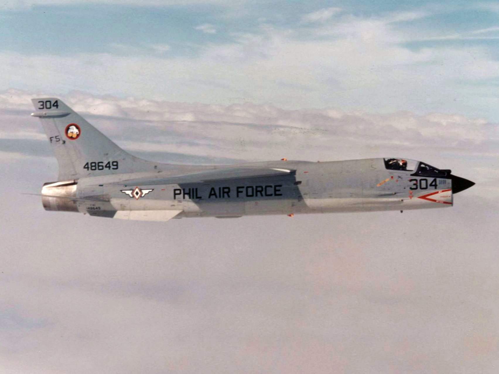 A Vought F-8H Crusader (ex U.S. Navy BuNo 148649) of the Philippine Air Force in flight. The Philippine Air Force operated some 25 F-8Hs from 1978. However, the aircraft quickly became too expensive and difficult to maintain. Due to the lack of any immediate "enemy", the Crusaders were permanently grounded in 1988 stored at Basa Air Base.